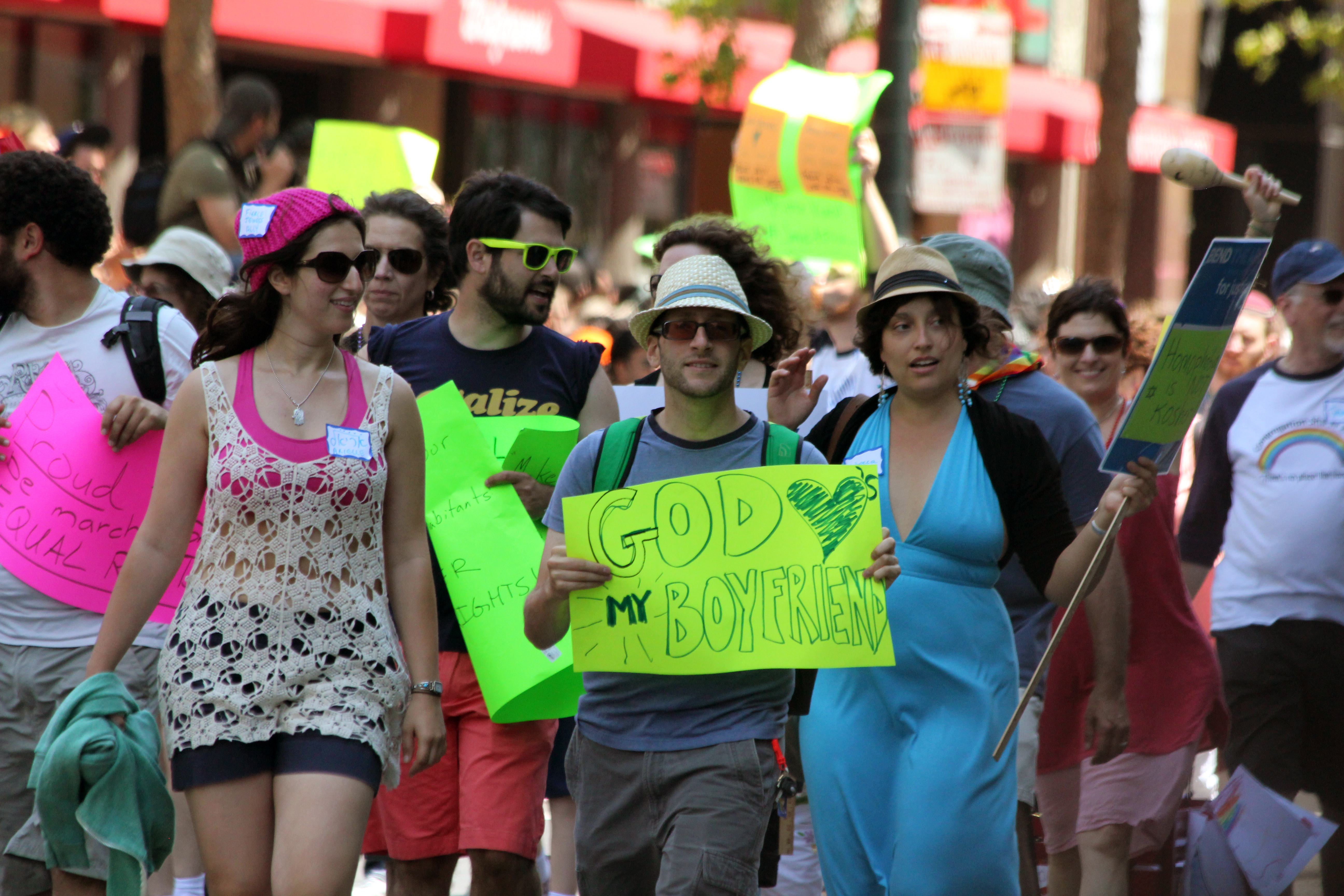 God loves my boyfriend